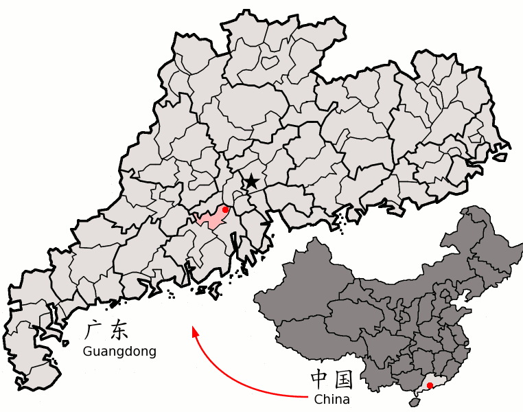 Location of Heshan within Guangdong province of China